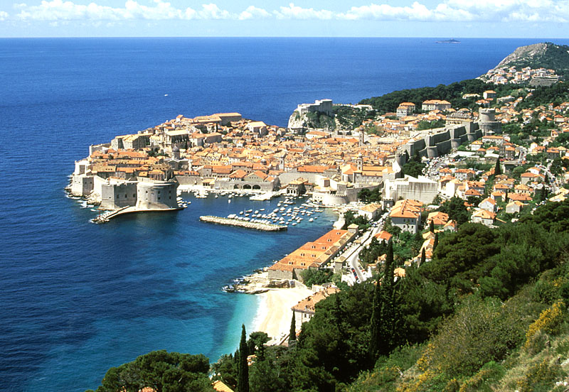 Old town of Dubrovnik